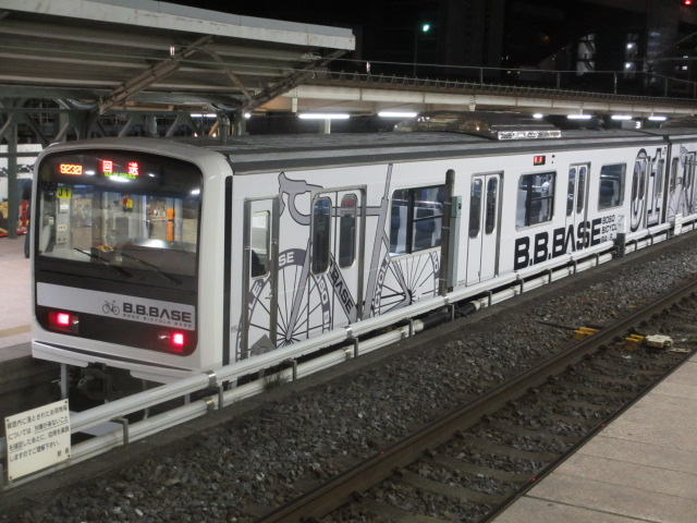 JR East 209-2200 series "Boso Bicycle Base" EMU set J1 at Ryogoku Station in Tokyo